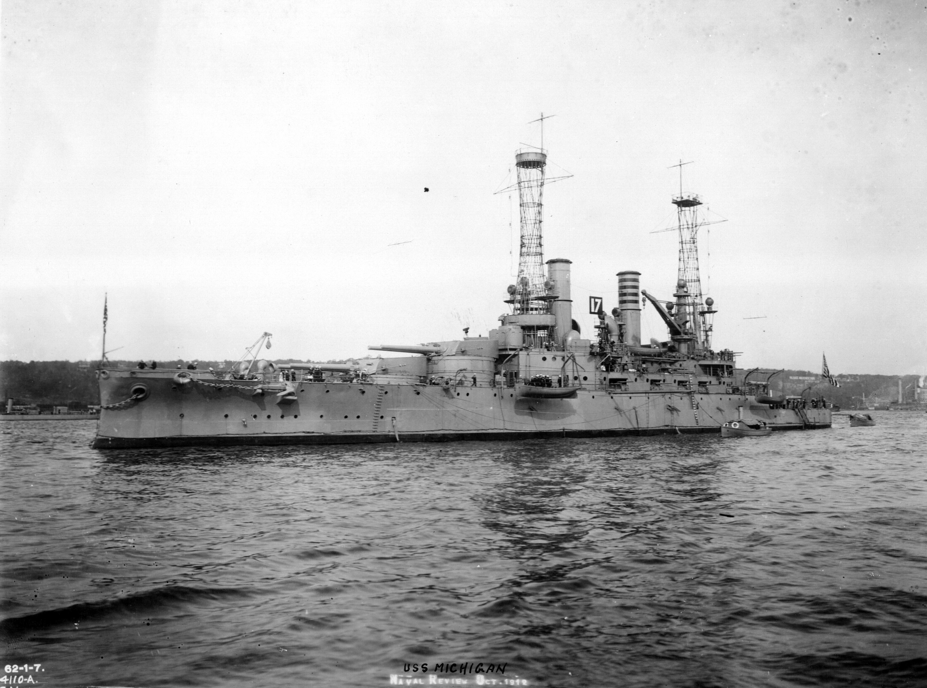 General notes: See also an expanded description from the Naval History and Heritage Command